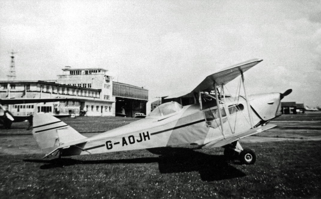 Canadian-built DH.83C Fox Moth G-AOJH of North West Air Services at Manchester (Ringway) Airport